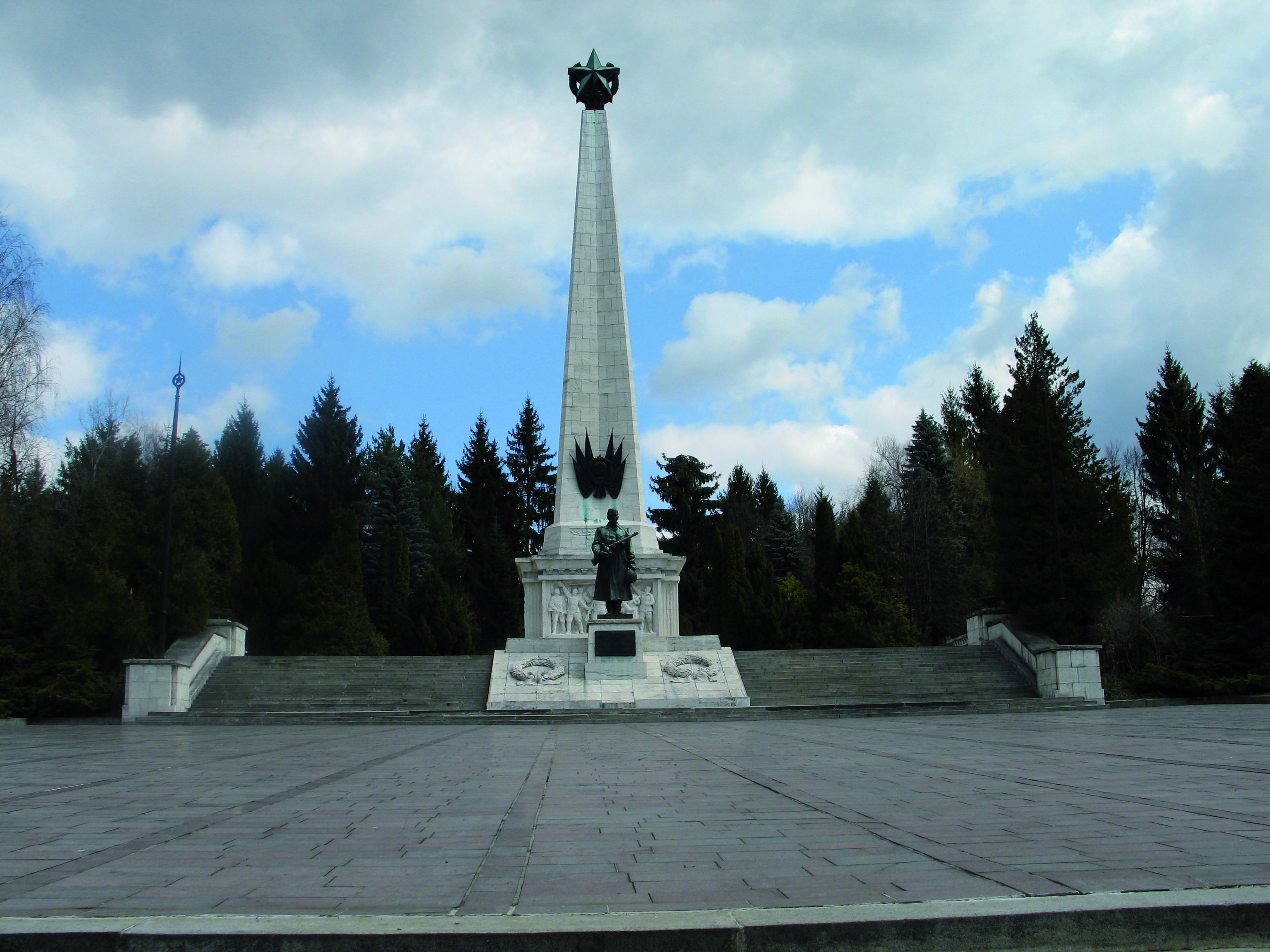 Soviet WW2 memorial in Svidnik Cemetery